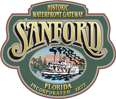 This is a logo for Sanford.